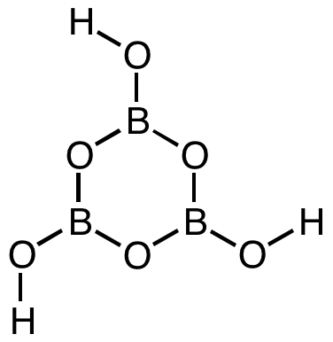 structure of molecular metaboric acid